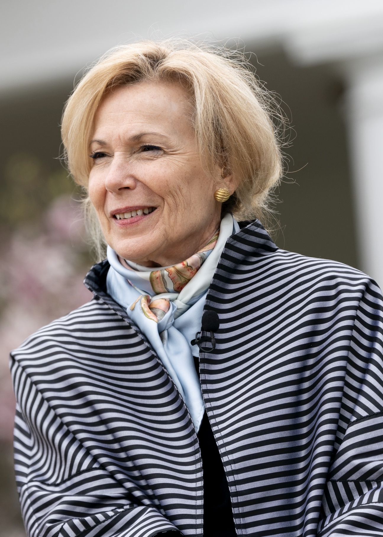 Ambassador Deborah Birx, White House Coronavirus Task Force Response Coordinator, answers questions during a virtual Fox News Town Hall Tuesday, March 24, 2020, in the Rose Garden of the White House. (Official White House Photo by Shealah Craighead)